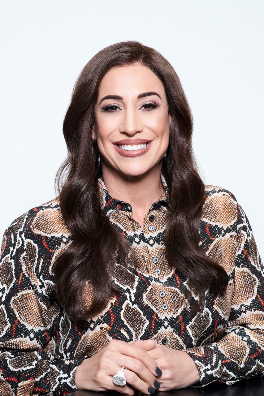 Dany Garcia photographed 25 February 2020, original.